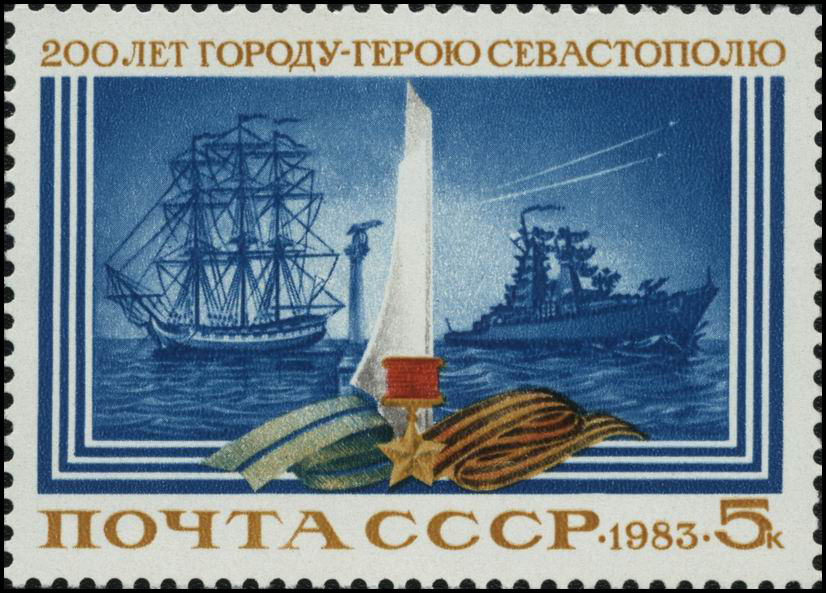 A USSR stamp, 1983